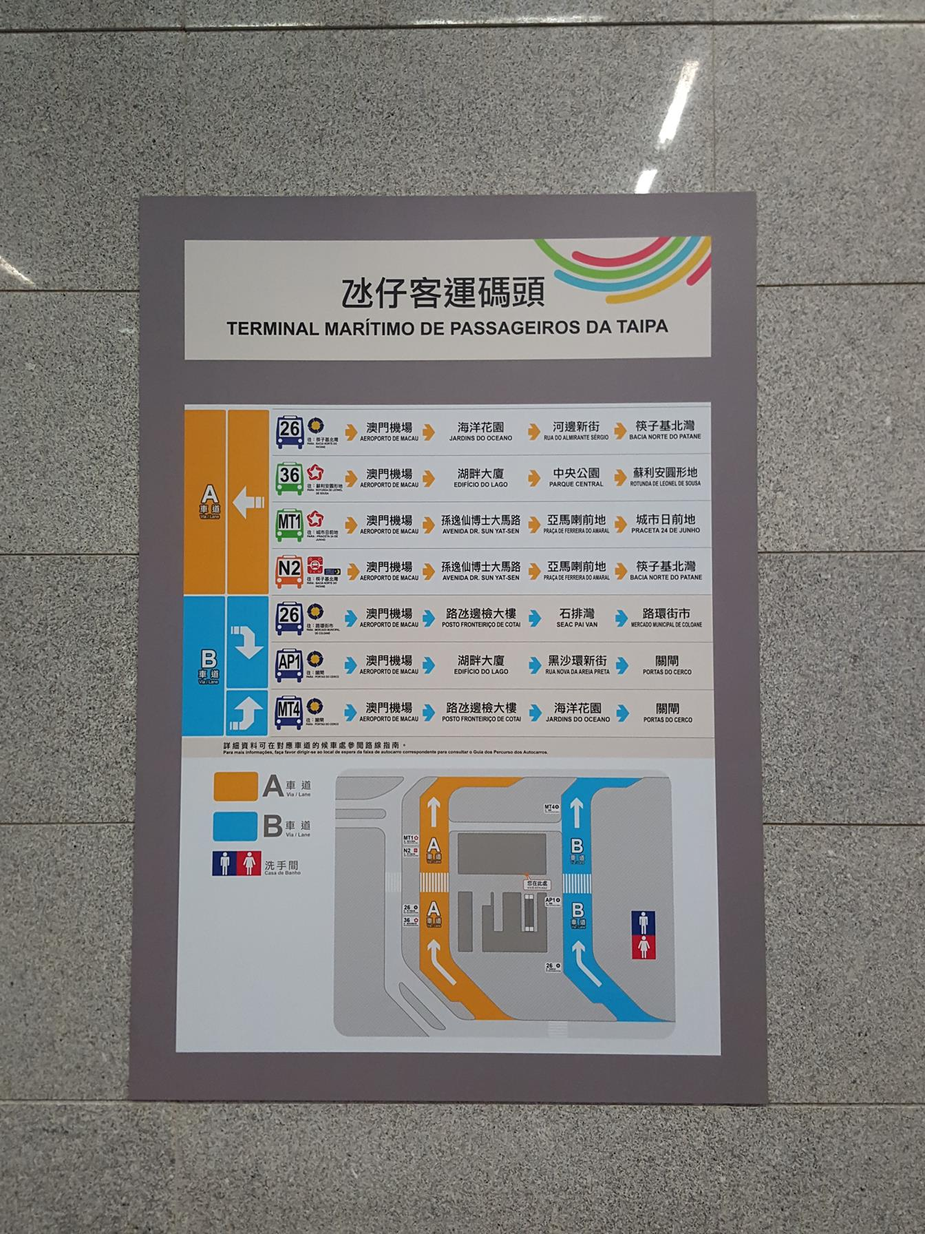 Macau Taipa Ferry Terminal (Bus Station)